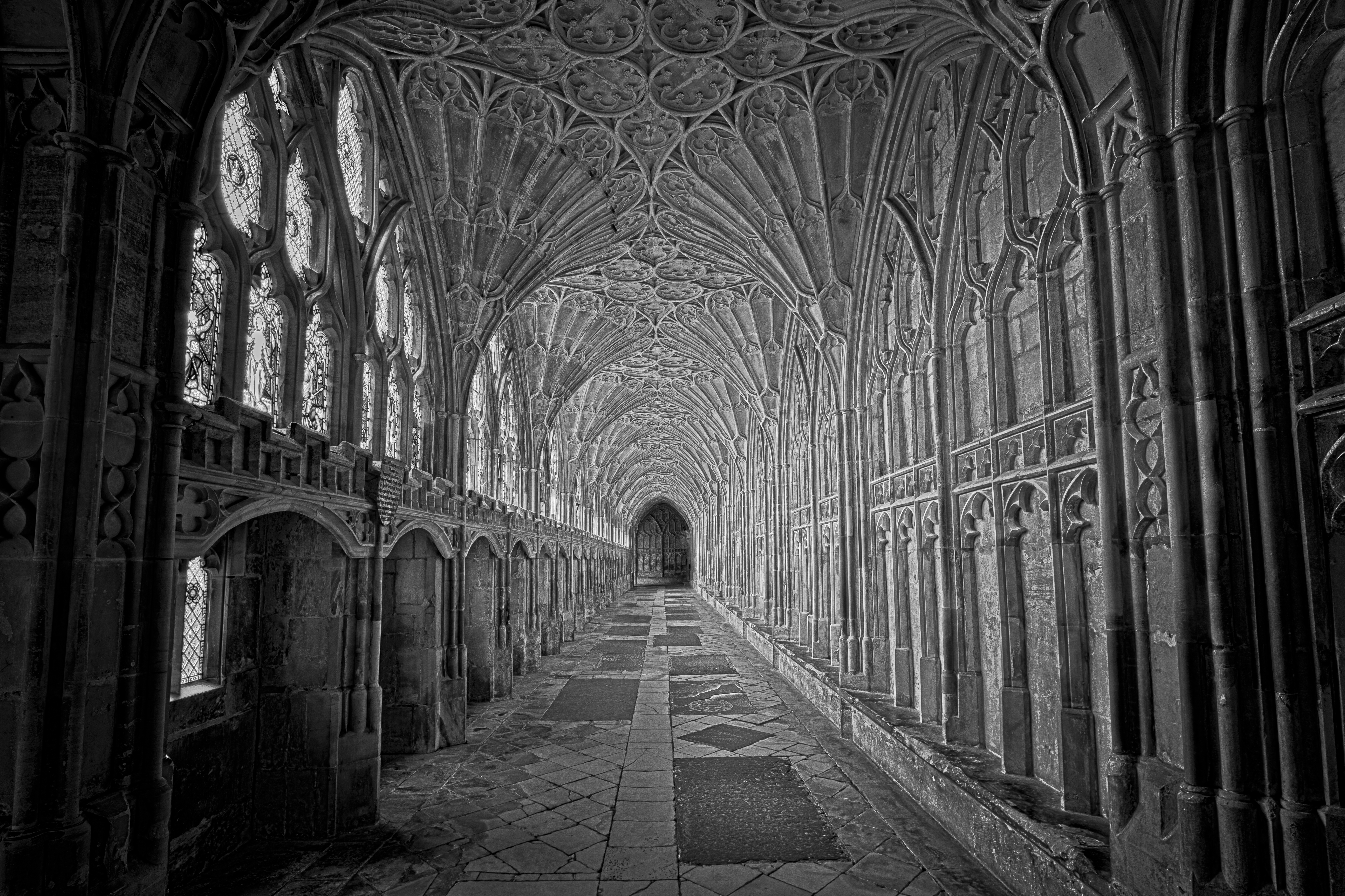 Here is a photograph taken from the cloister inside Gloucester Cathedral. Located in Gloucester, Gloucestershire, England, UK.